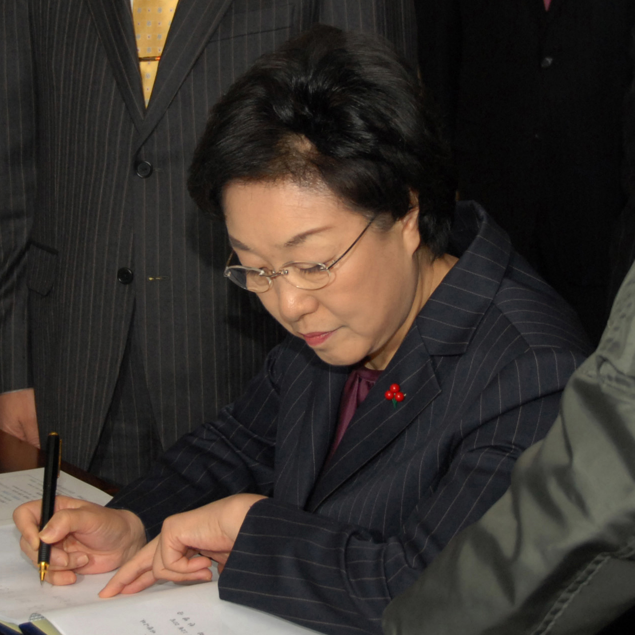 한명숙 (전 총리) Han, Myeong Sook. Cropped from a photo with the caption: Korean Prime Minister Han, Myeong Sook signs the guest book on Osan Air base, South Korea, Dec. 20, 2006. Han, Myeong Sook is visiting with service members to boost moral during the holiday season.